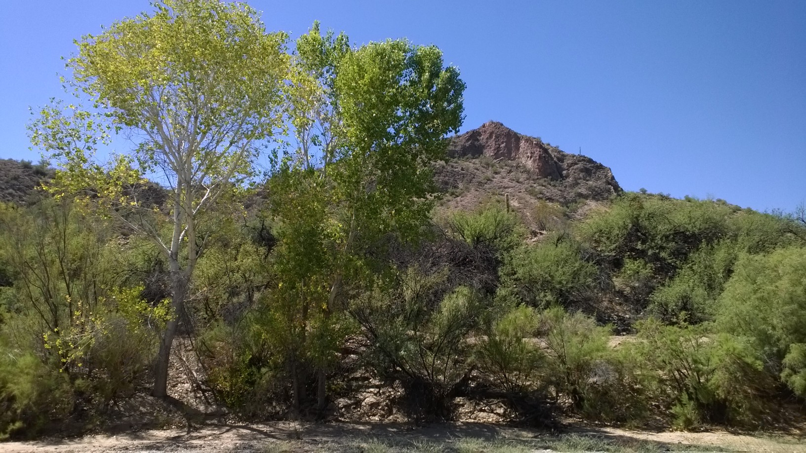 Wegner Peak - View from the Big Sandy River